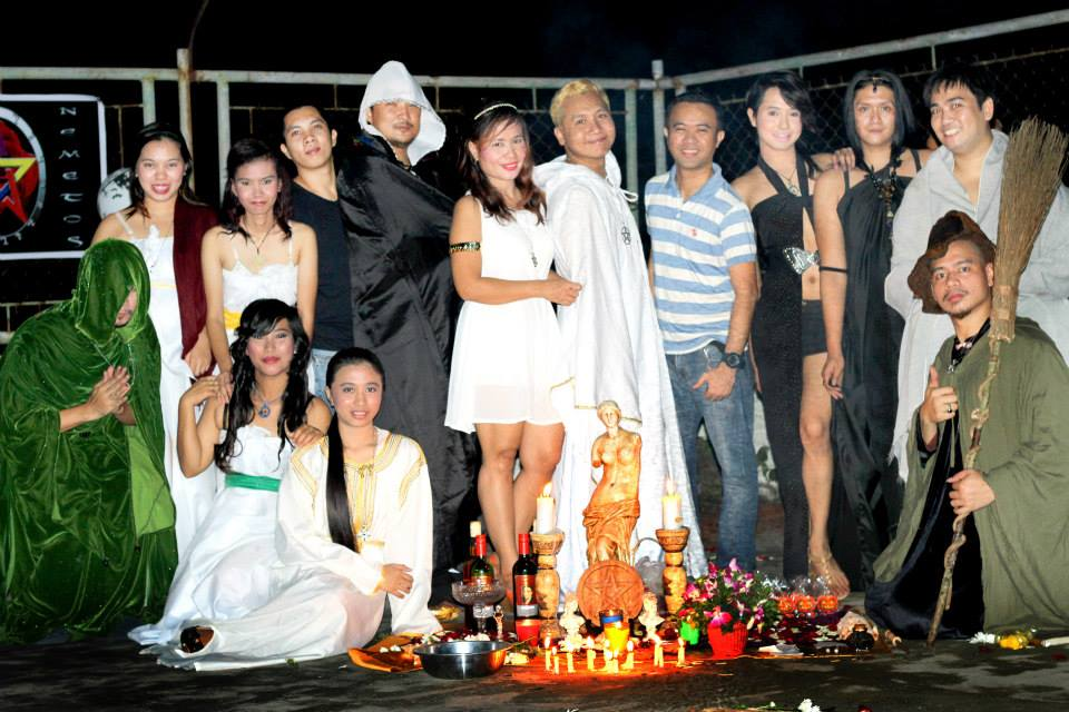 Last October 31, 2014 to November 1, 2014 Samhain Celebration